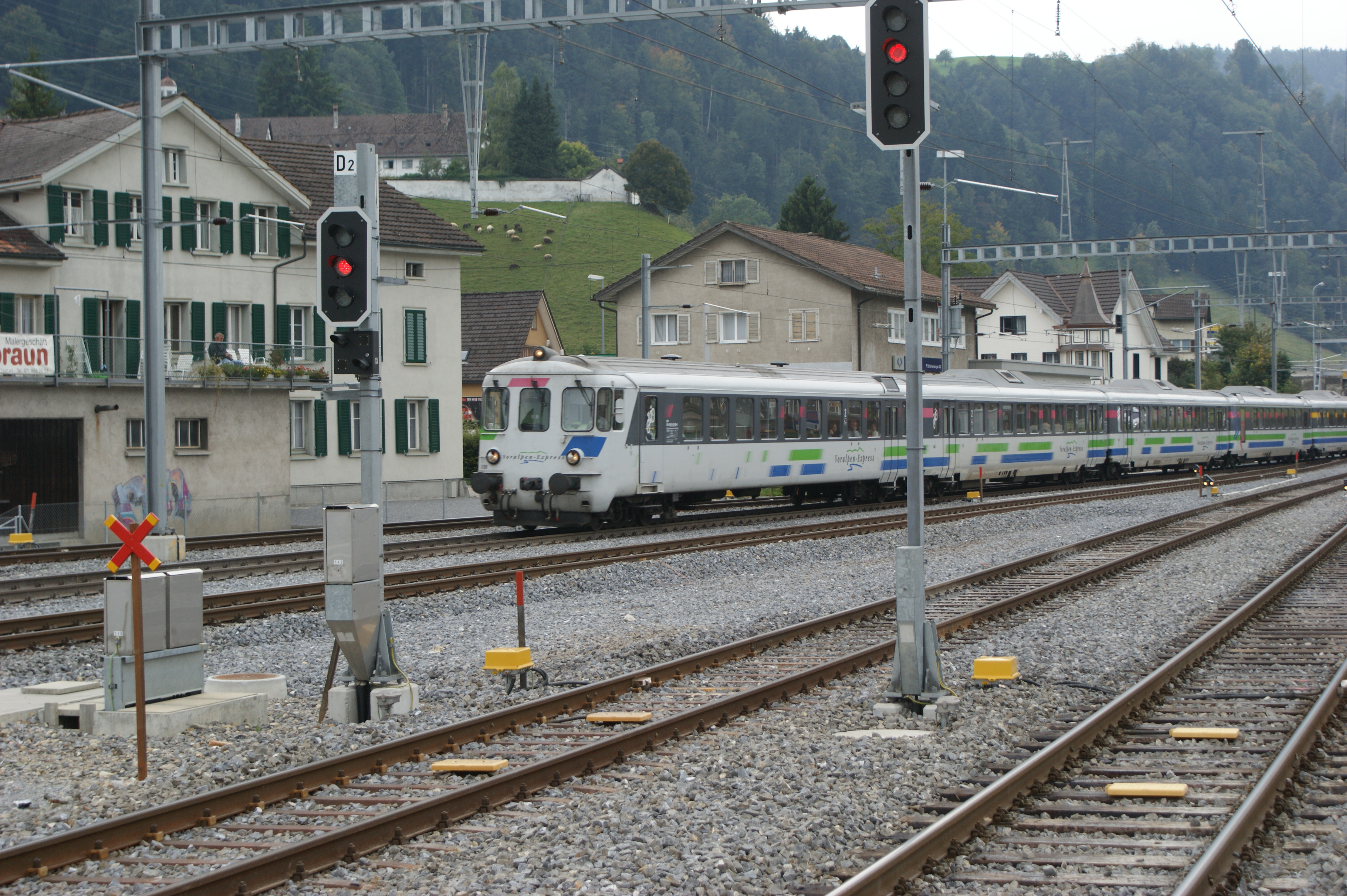 Südostbahn driving trailer BDt 199 (ex WM Bt 11) on the Voralpen-Express from St. Gallen entering Wattwil station. In the foreground two main signals with Eurobalises for EuroSignum/EuroZub. Photo from the day of inauguration of the rebuilt Wattwil station, now owned by SOB.